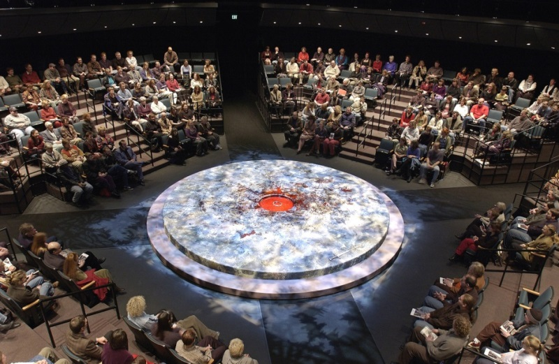 The set for Macbeth, directed by Libby Appel, which was the opening performance in the Thomas Theatre.